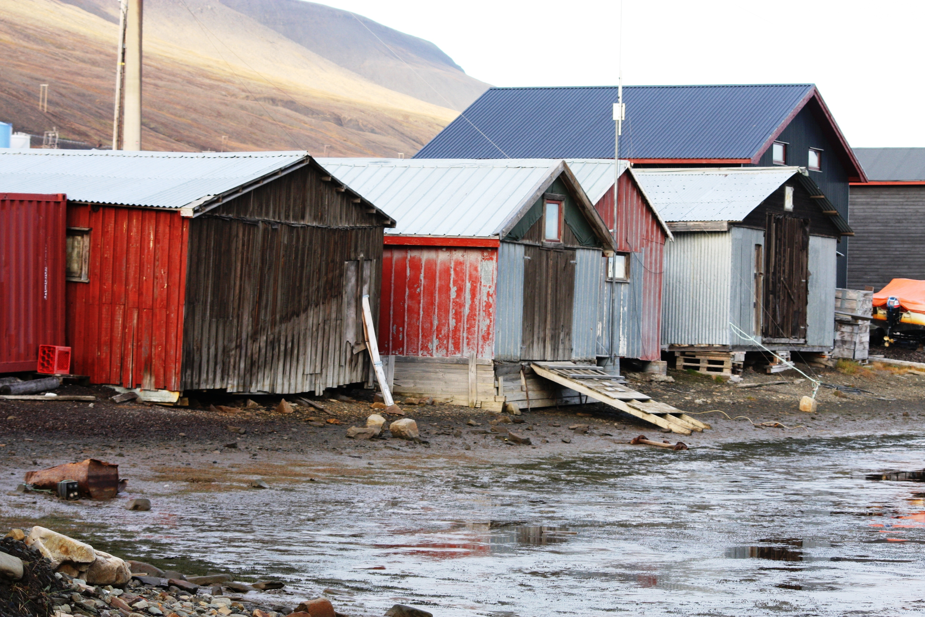 Image from the estuary of the river Adventelva, in the fjord Adventfjorden - Longyearbyen (Svalbard)